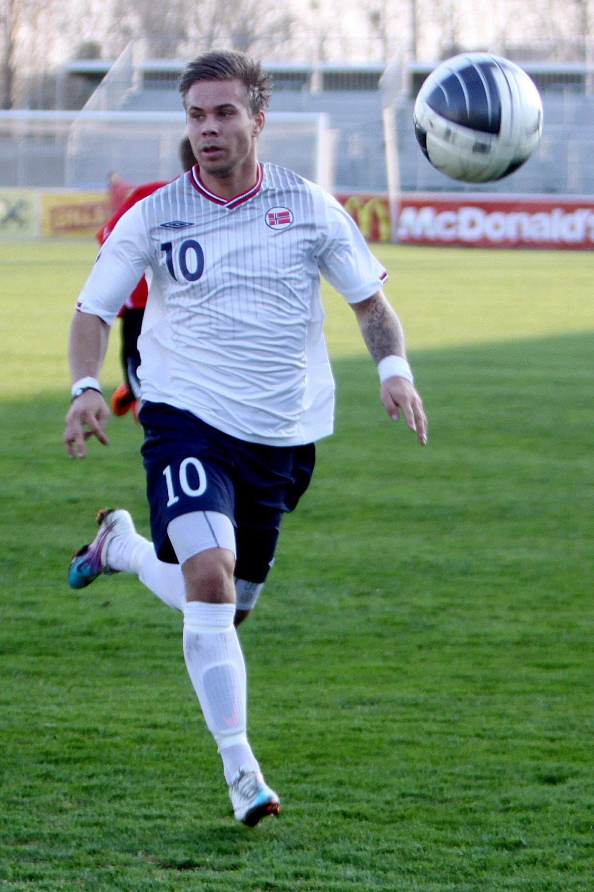 Marcus Pedersen (Vitesse Arnhem) in the Norway national under-21 football team, 2011-03-29